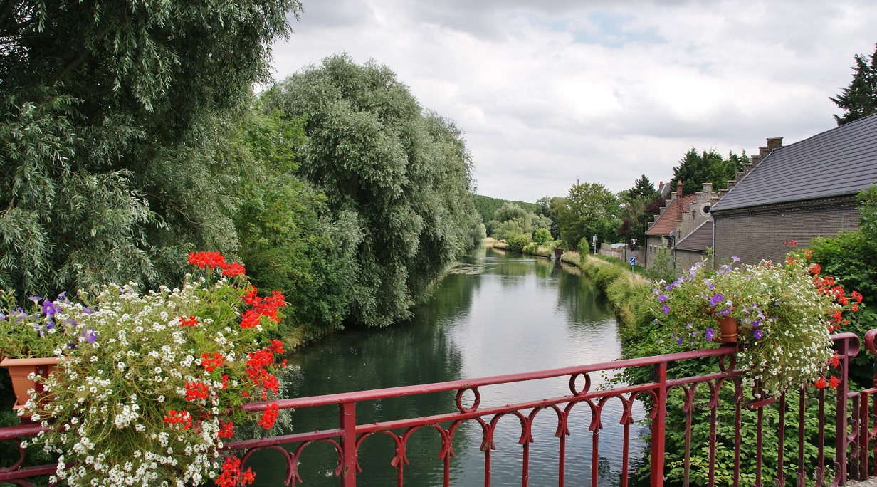 La Scarpe